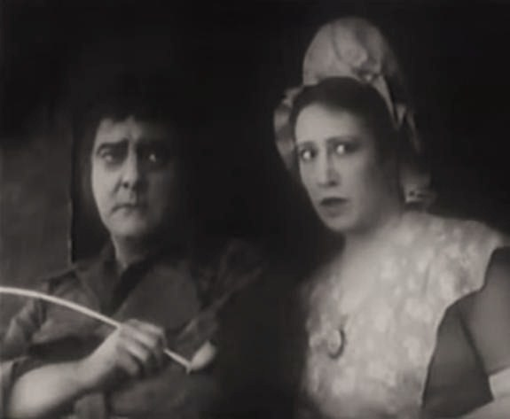 Herschel Mayall & Rosita Marstini in A Tale of Two Cities - cropped screenshot